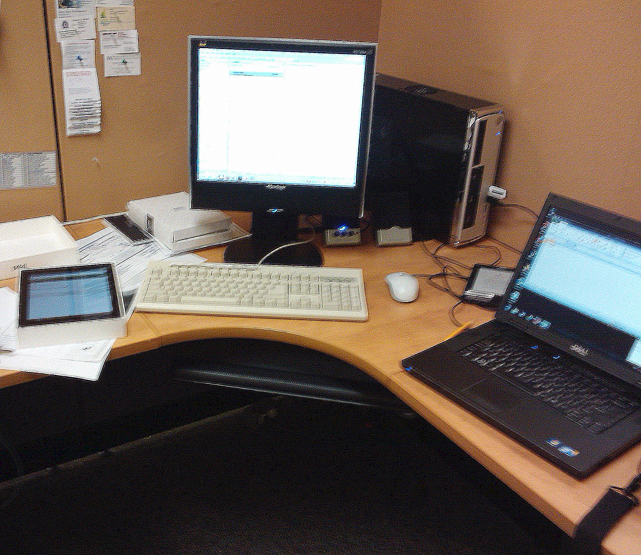 digital services librarian (my desk) workspace on a busy day- iPad, PC, eReader and laptop are in use.